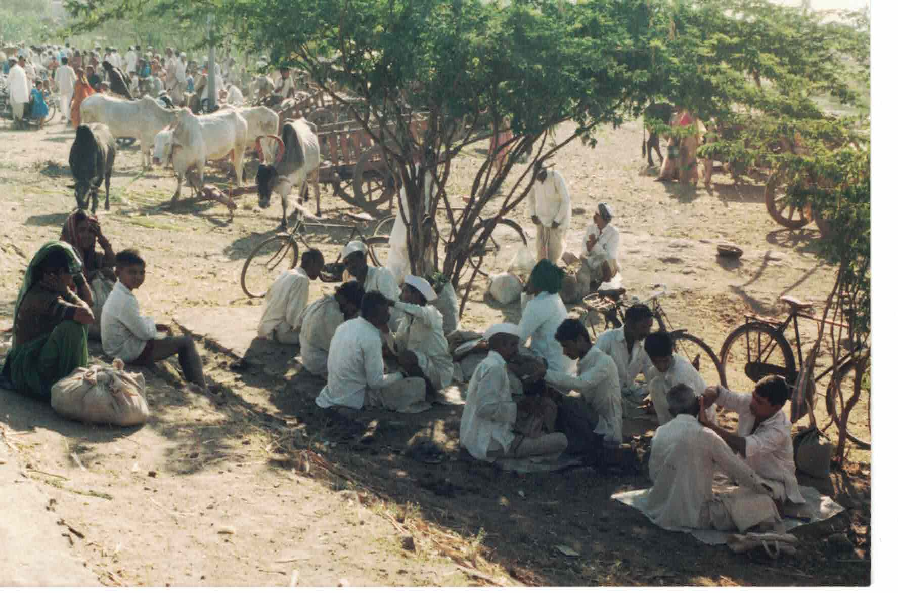 Street Salon during Weekly Bazar in Loni Kalbhor, Maharashtra, India